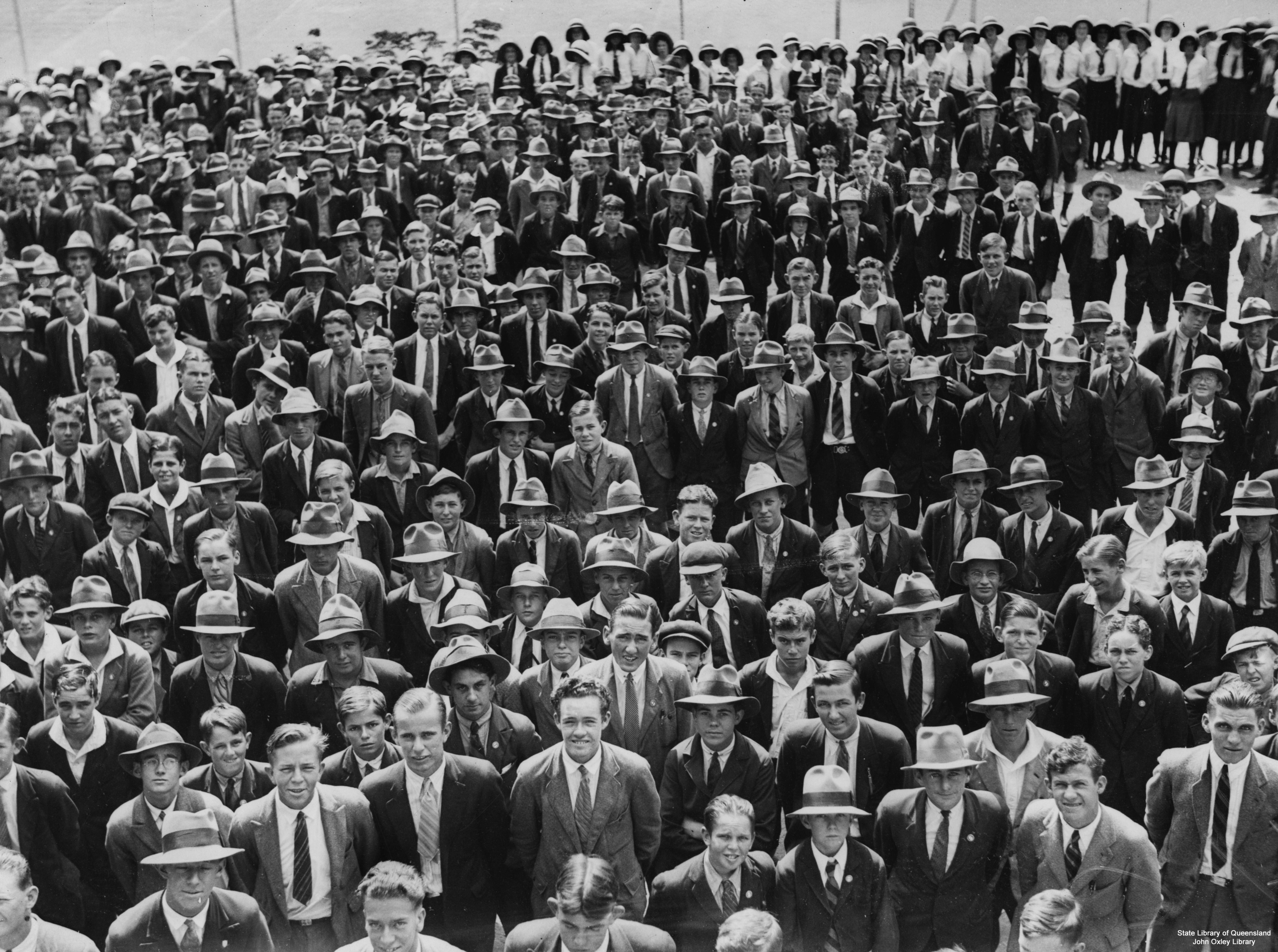 Pupils from Brisbane State High School, Brisbane, Queensland, 1932. Students from Brisbane State High School gather to listen to the Anzac Day address, 23 April 1932. The boys are dressed in trousers, jackets, ties and hats, while the girls are wearing long skirts, blouses, ties and hats.